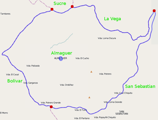 Created using MWSnap and GIMP. Red dots indicate where administrative boundaries intersect. The underlying image is from OpenStreetMap; .